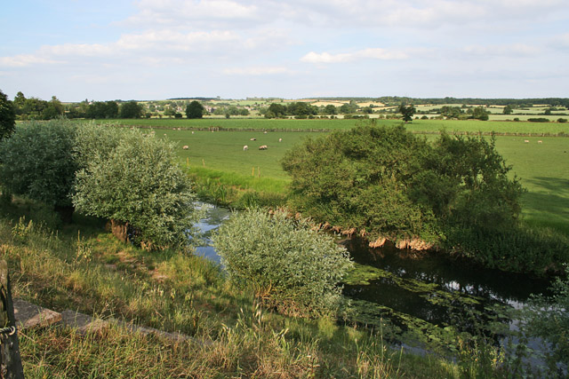 View of Northamptonshire from Rutland. Looking over the River Welland from Tixover you can see Duddington (SK9800) against the hill in the distance. The county boundary runs along the centre of the river.